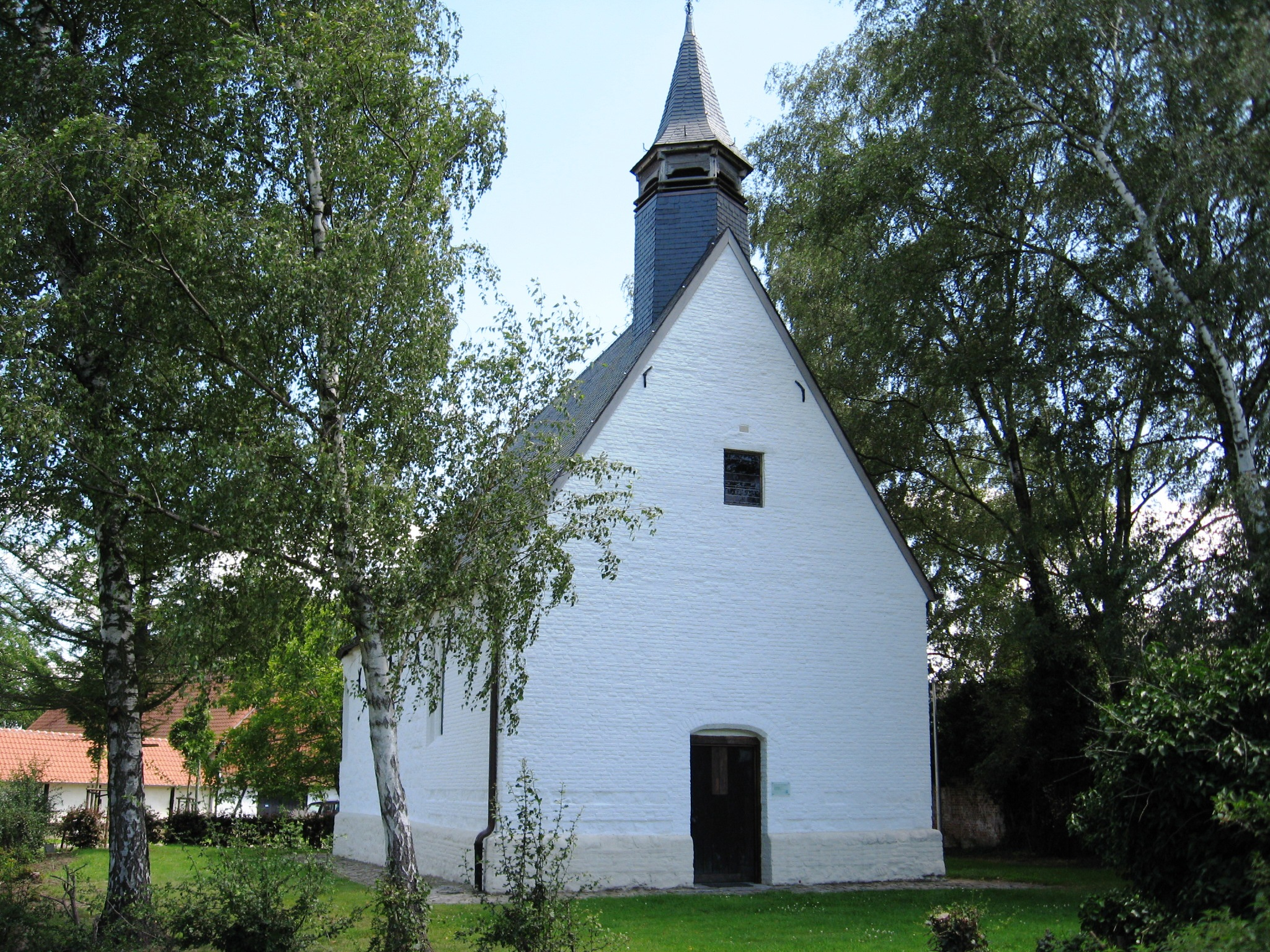 Chapel of the Annunciation to Mary in Roman style from 13th century in Spalbeek, Limburg, Belgium